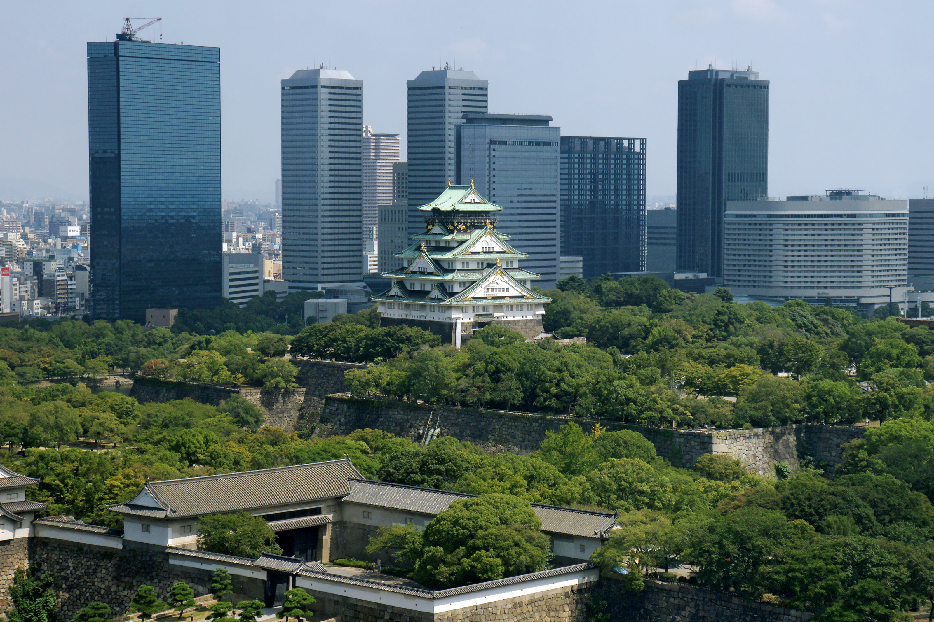 Osaka Castle in Chuo-ku, Osaka, Osaka prefecture, Japan